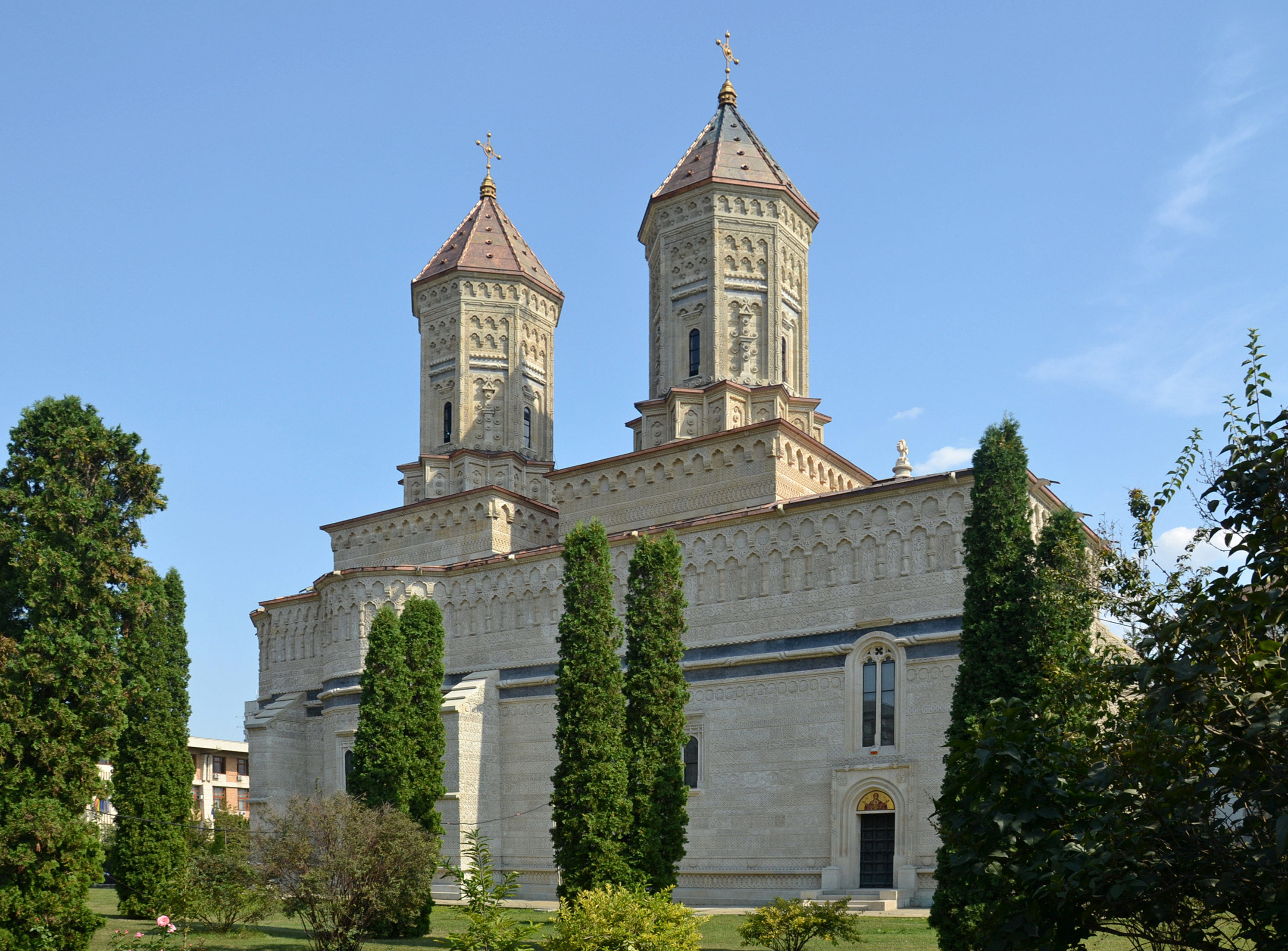 Three Holy Hierarchs Monastery in Iași, Romania